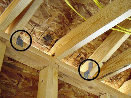 Hurricane clips, shown circled above, help anchor roofs to the main structure to prevent detachment due to sever wind. These clips can be found at many hardware stores, and are an inexpensive way to mitigate homes against sever losses from hurricanes. The home above kept its lid on during the severe winds brought by Hurricane Katrina, even though construction of the house had not been completed. Photo by William Dryden/FEMA.